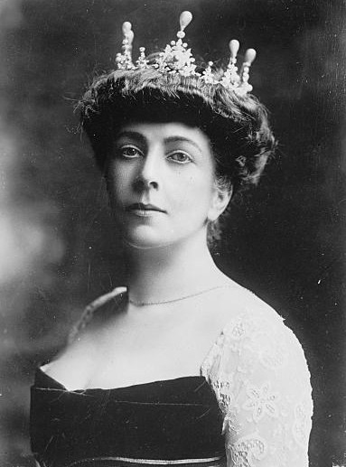 Jenni Jerome, wife of George Cornwallis-West